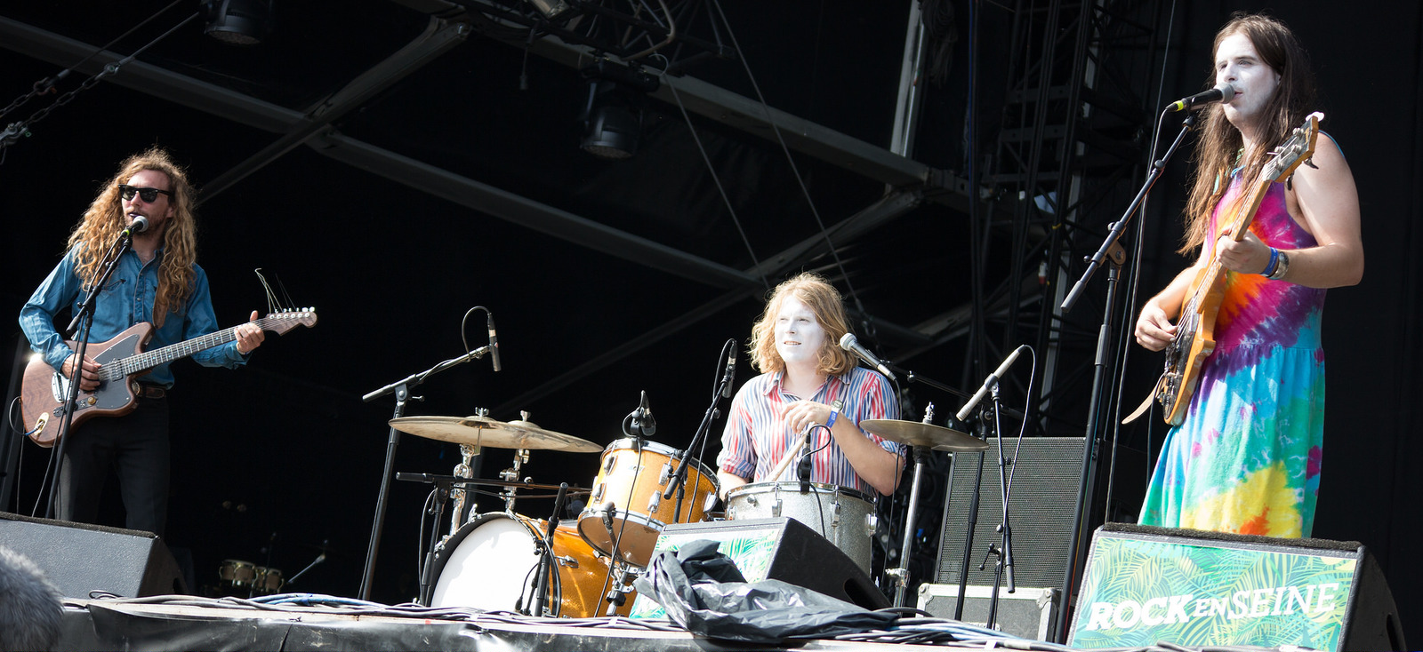 Fuzz performing during the Rock en Seine 2015 festival (Paris, France).